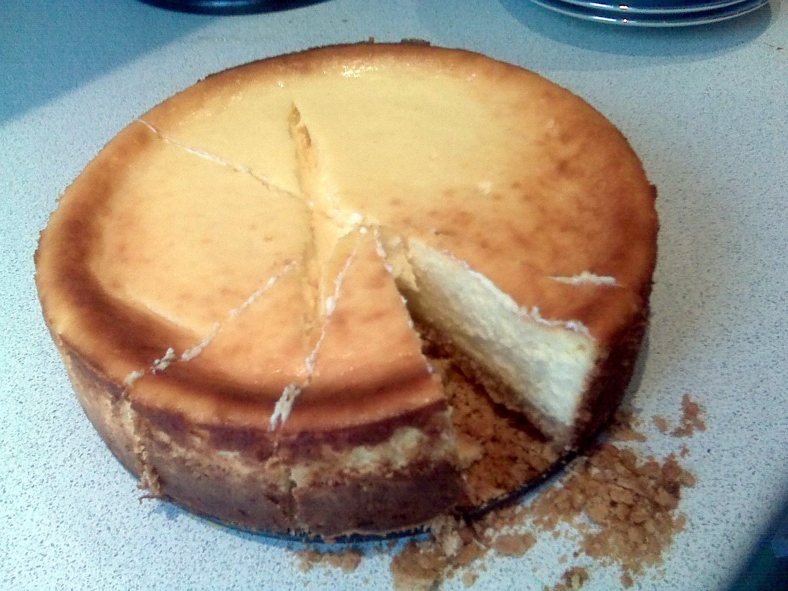 South-African Rose baked Cheese Cake on Dr. Stephen 13th birthday of 21st anniversary